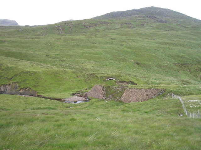 Lord Salisbury's Dam. An abortive attempt by the 19th century owner to divert the river to flow into Kinloch Glen.